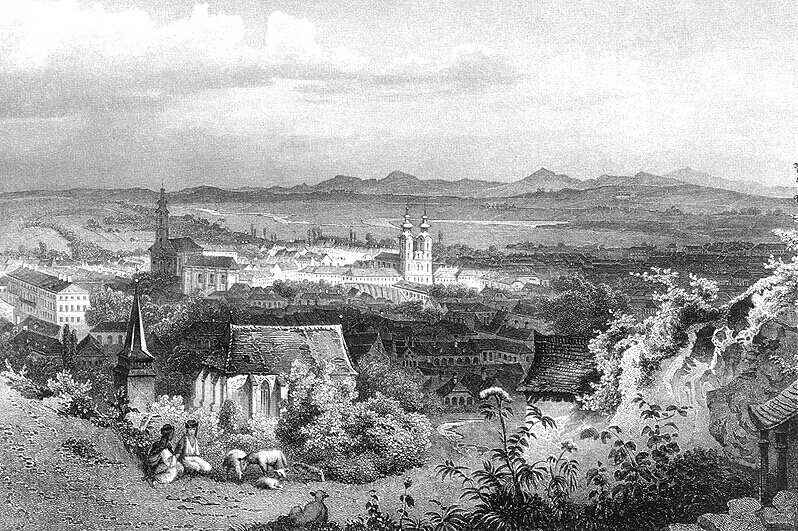 Miskolc, old lithography. View from the Avas Hill.